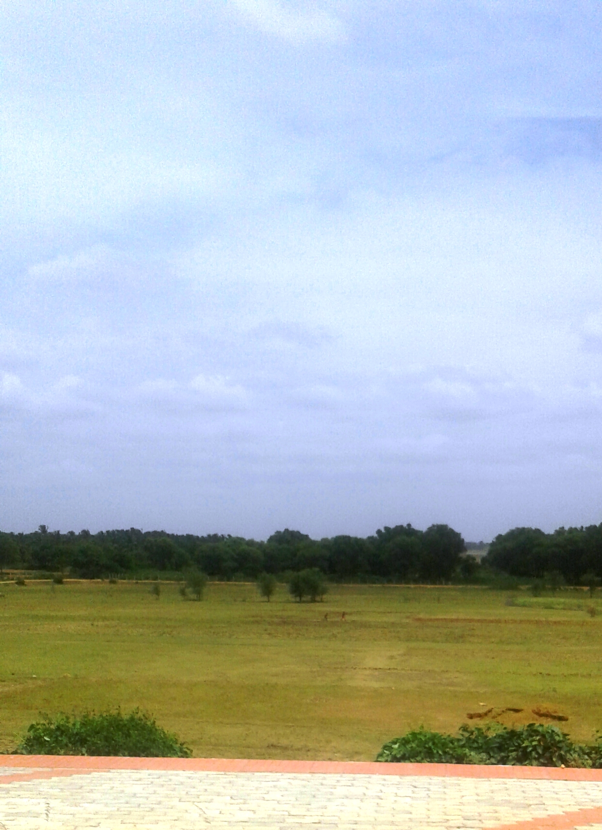 Tumkuru district, Karnataka state, India.